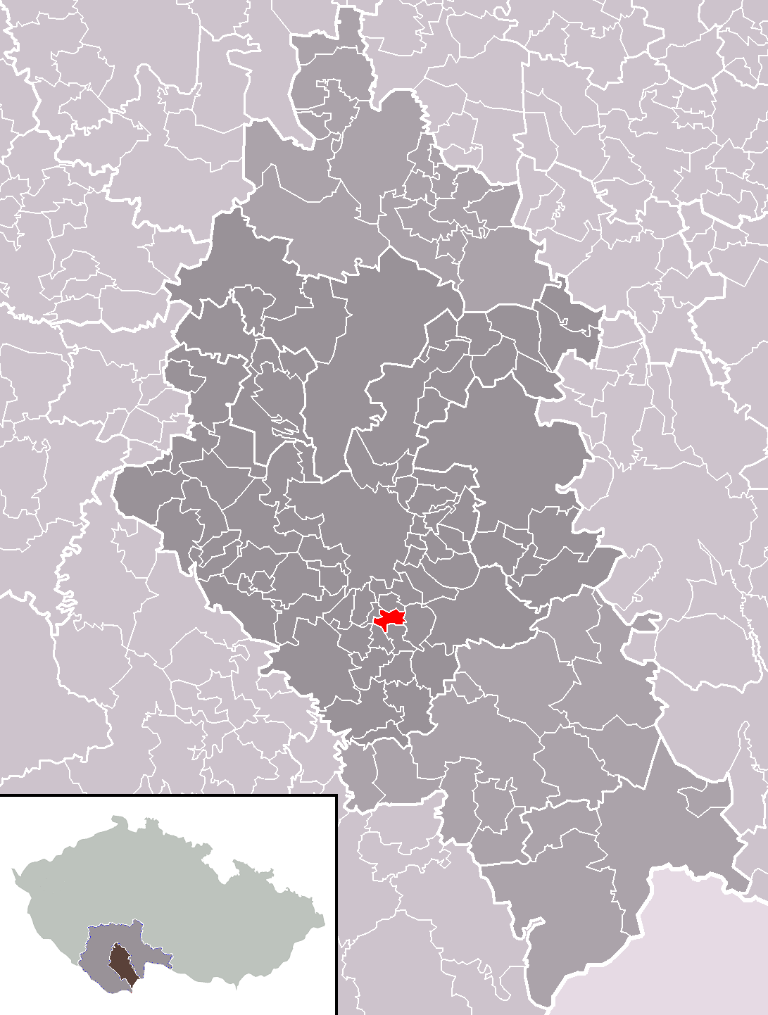 Location of Nedabyle municipality within České Budějovice District and administrative area of České Budějovice as a Municipality with Extended Competence.